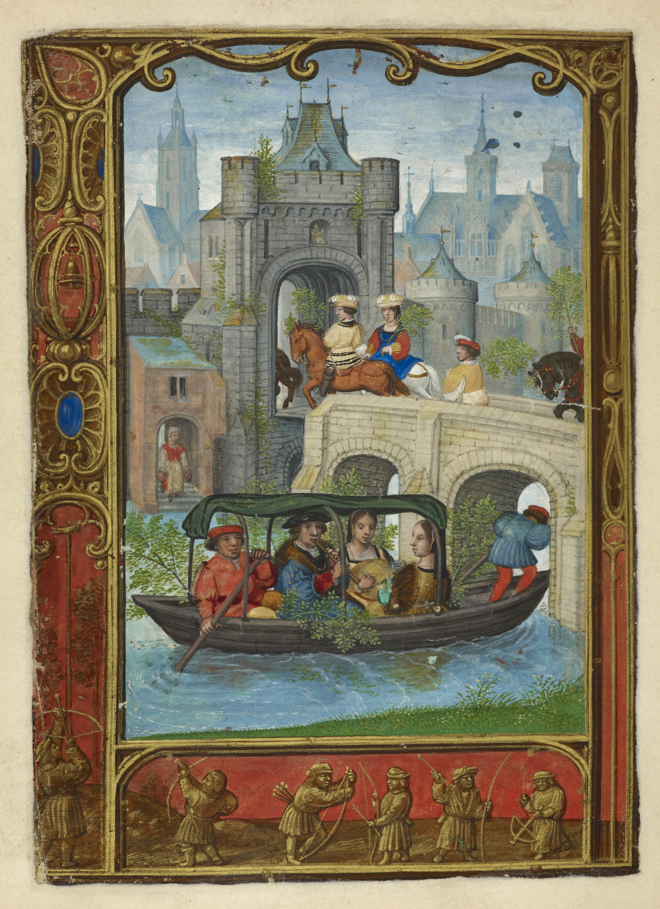 Calendar scene for May: Boating party. (Below) Archery Image taken from The Golf Book.